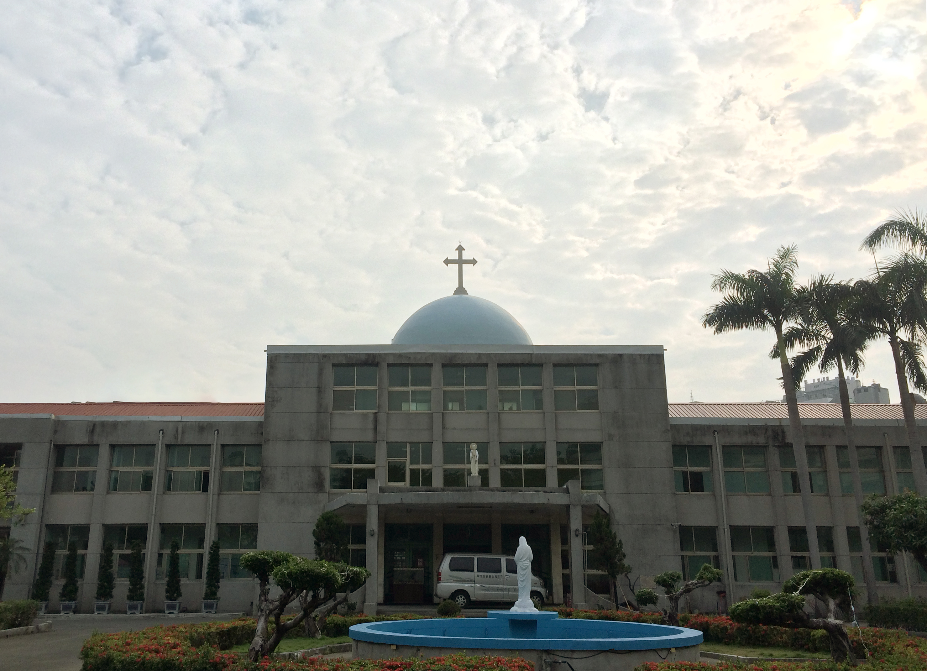 Savior of The World, Catholic church at Kaohsiung City, Taiwan.